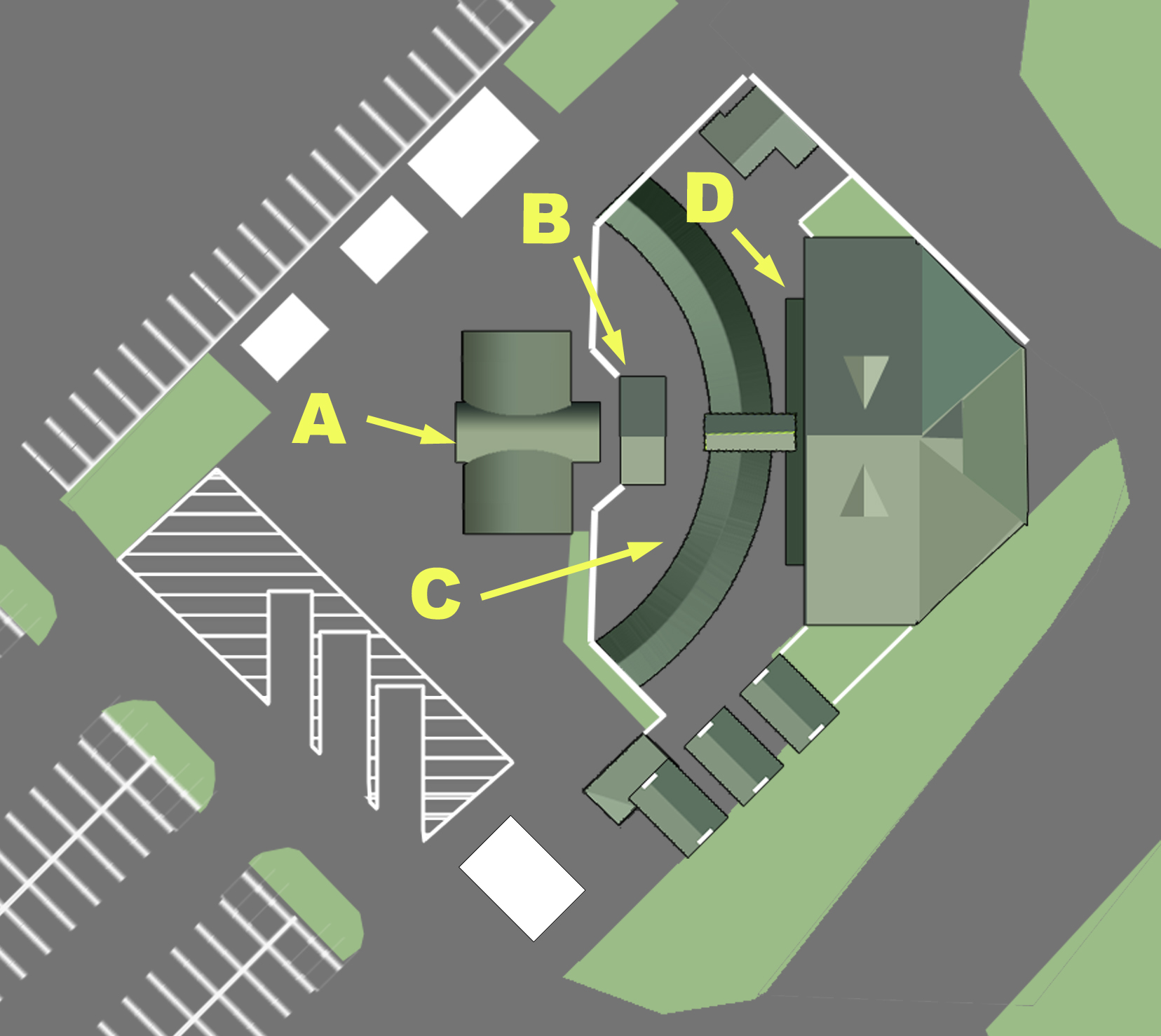 Overhead view of Elmer T. Jaffe Visitor's Center of the Peter J. Pitchess Detention Center in Castaic, California. A. Main entrance; B. Security checkpoint; C. Bus ticket windows; D. Bus waiting area.